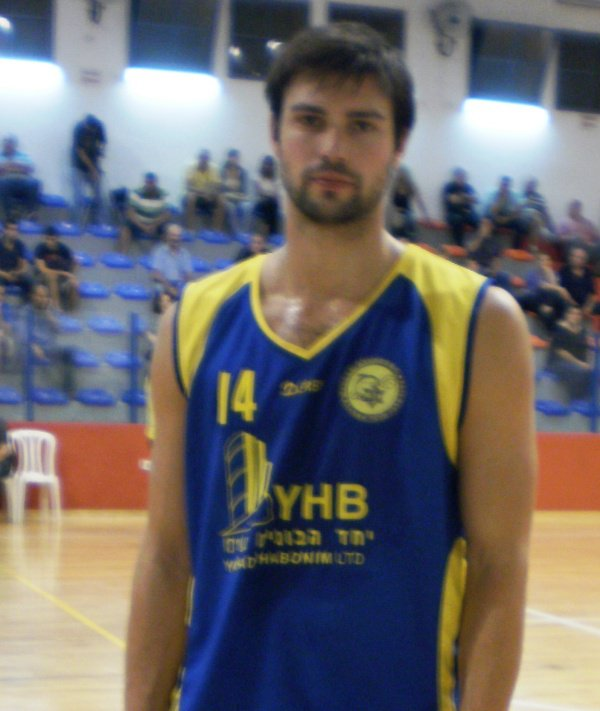 yan martin in maccabi ashdod